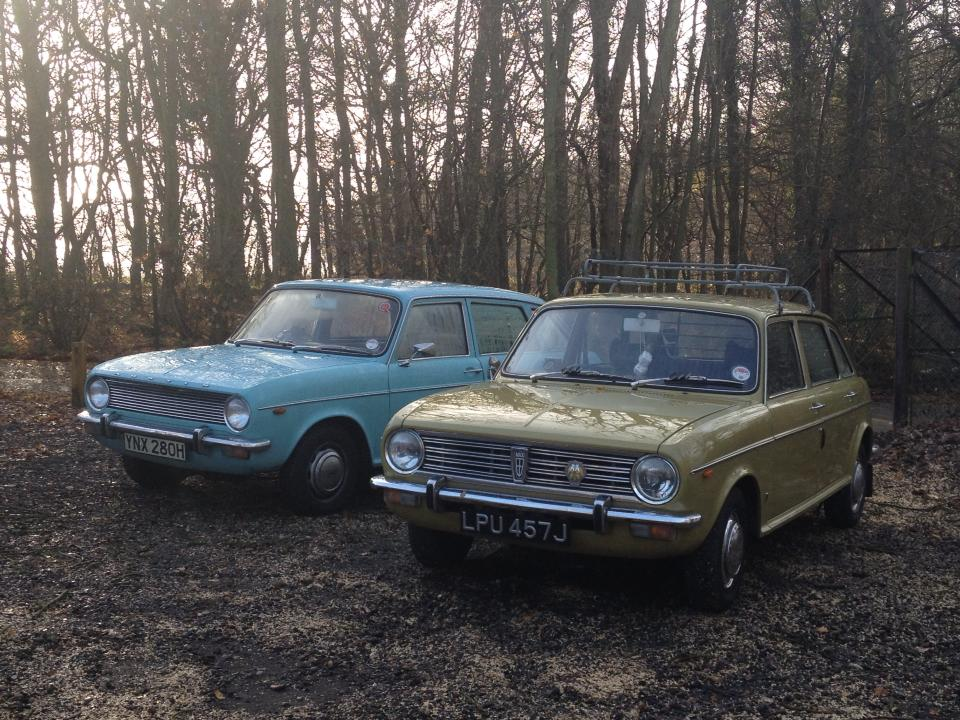 British Leyland Motor Corporation Austin Maxi Mk I of 1970 and Austin Maxi Mk II of 1970 (1750) showing differences .